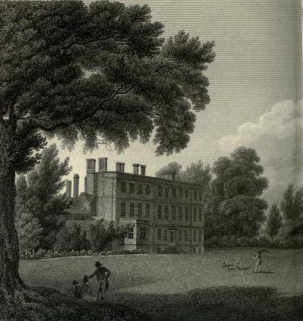 Twickenham Meadows (mansion in London area, England), detail of engraving.